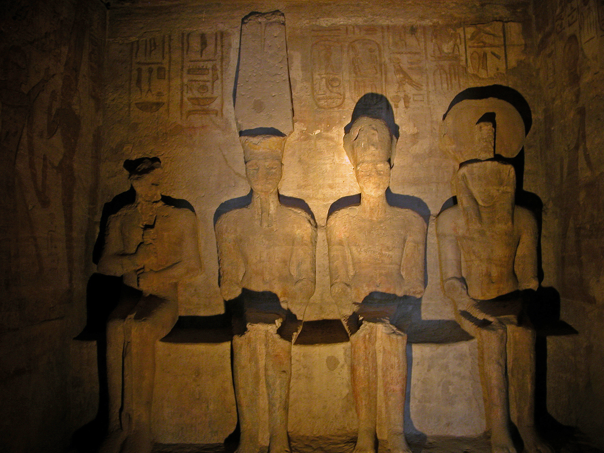 The Holy of Holies or Sanctuary. Abu Simbel, Egypt The most sacred place, the Holy of Holies or Sanctuary. Four seated statues of Re-Horakhty, the deified Rameses II, Amun-re and Ptah are carved from the rock of the back wall. A pedestal still remains in the sanctuary on which the sacred barque would have stood. Twice each year, on February 22 and October 22, the rays of the sun come in through the front entrance and travel straight back through the temple until they reach the inner sanctuary, where they illuminate the faces of the rock -cut statues of Amun, Re-Horakhti, and Rameses II for a full twenty minutes. The face of Ptah , who is god of the Underworld, remains in darkness.